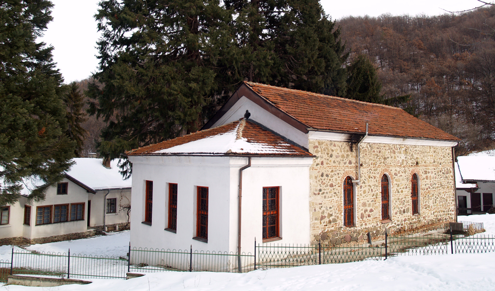 Germanski Monastery, Bulgaria